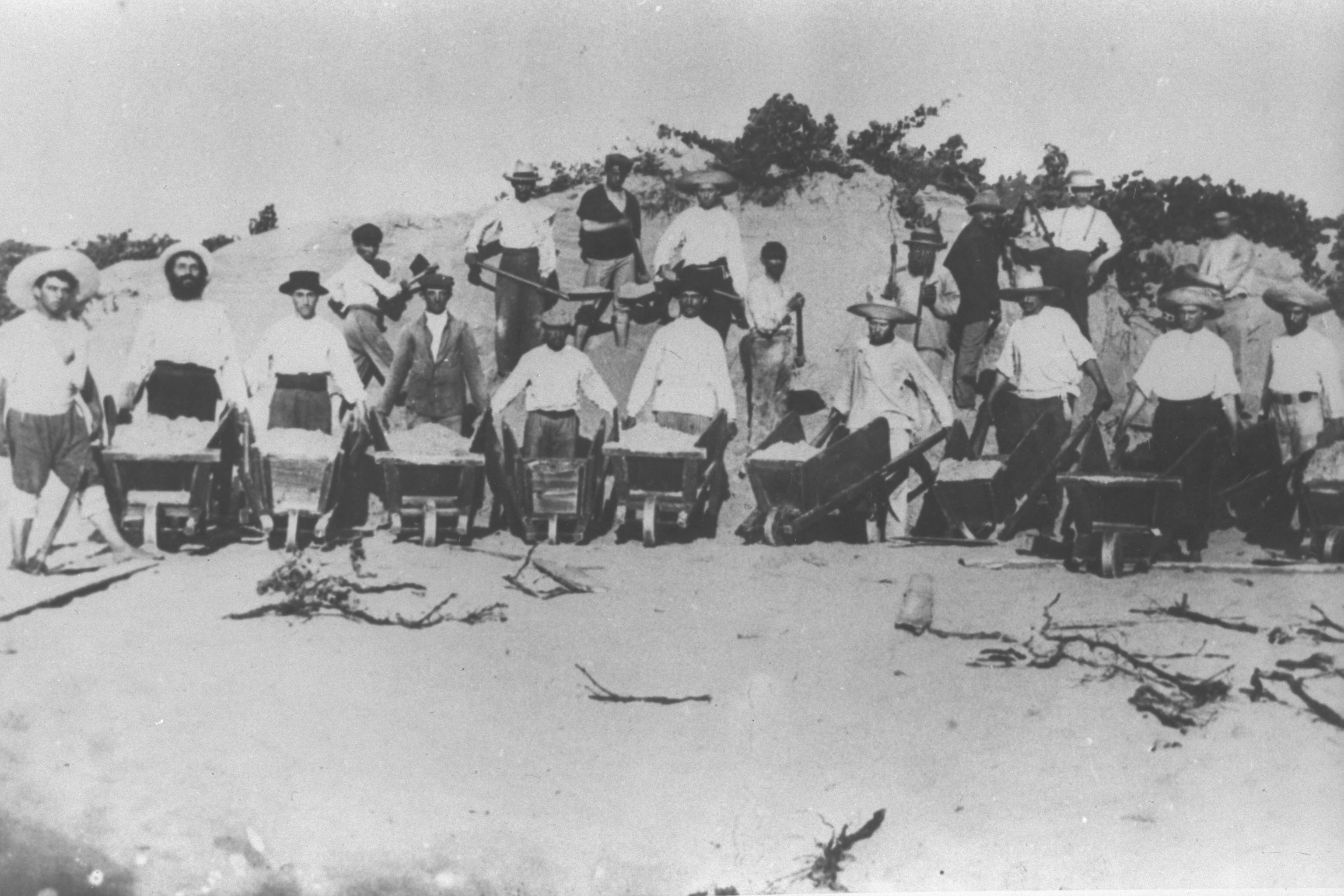 JEWISH PIONEERS BEHIND THEIR CARTS POSING FOR A PICTURE IN THE SANDS OF TEL AVIV. חלוצי ההתיישבות בתל אביב מצטלמים בדיונות החול של העיר.